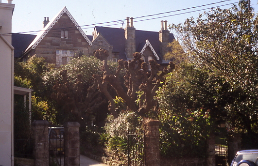 Nugal Hall,a Gothic Revival home in Milford Street, Randwick, New South Wales, Sydney, photo by Sardaka 09:48, 16 July 2007 (UTC) (Kodachrome slide scanned at low res, originally taken c. 1985)